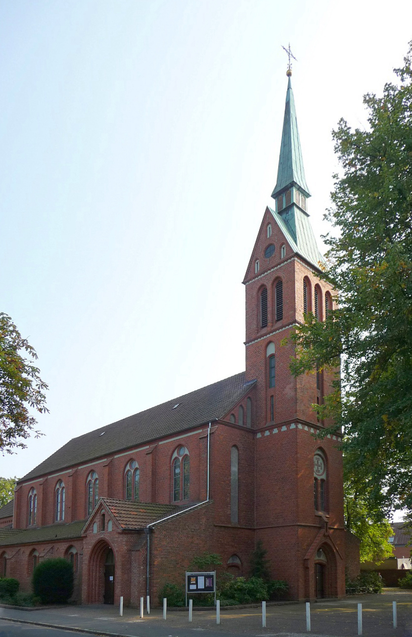 kath. church St. Marien in Bremen-Blumenthal